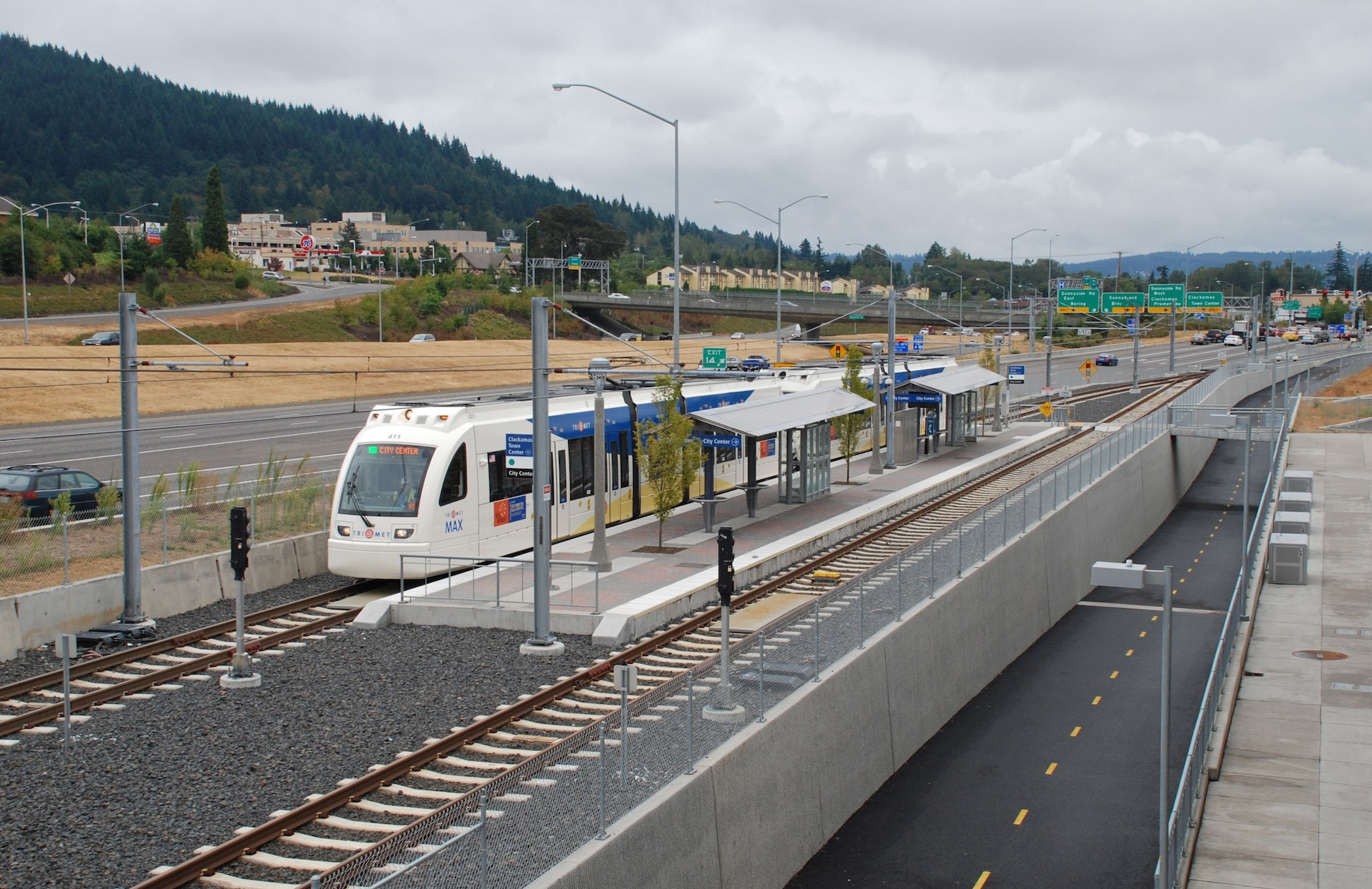 The Clackamas Town Center Transit Center MAX station, viewed from the park-and-ride garage, with a train (two Siemens S70 cars) departing for downtown Portland. Interstate 205 is in the background, and the I-205 Bike Path is in the foreground. The transit center's bus area is out of view to the right.